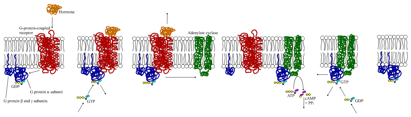 G-protein-coupled receptor by user:Bensaccount.